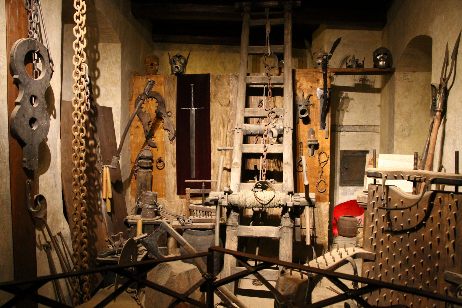 torture chamber in Prague Castle